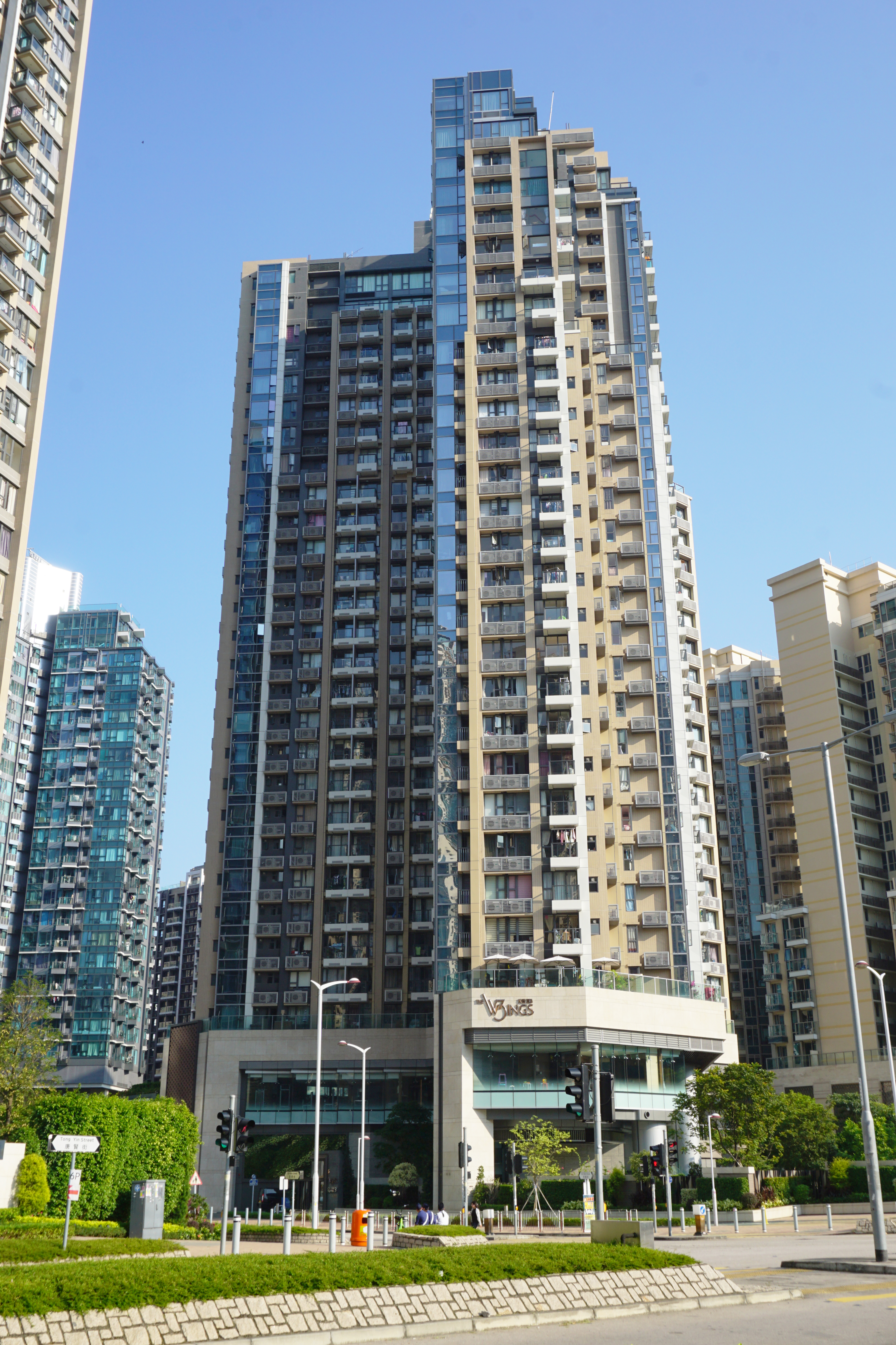 The Wings IIIB in Tseung Kwan O, Hong Kong.